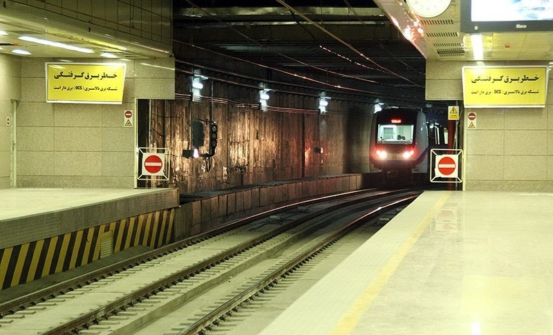 Shiraz metro